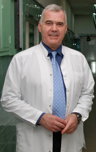 Prof. Ognyan Brankov